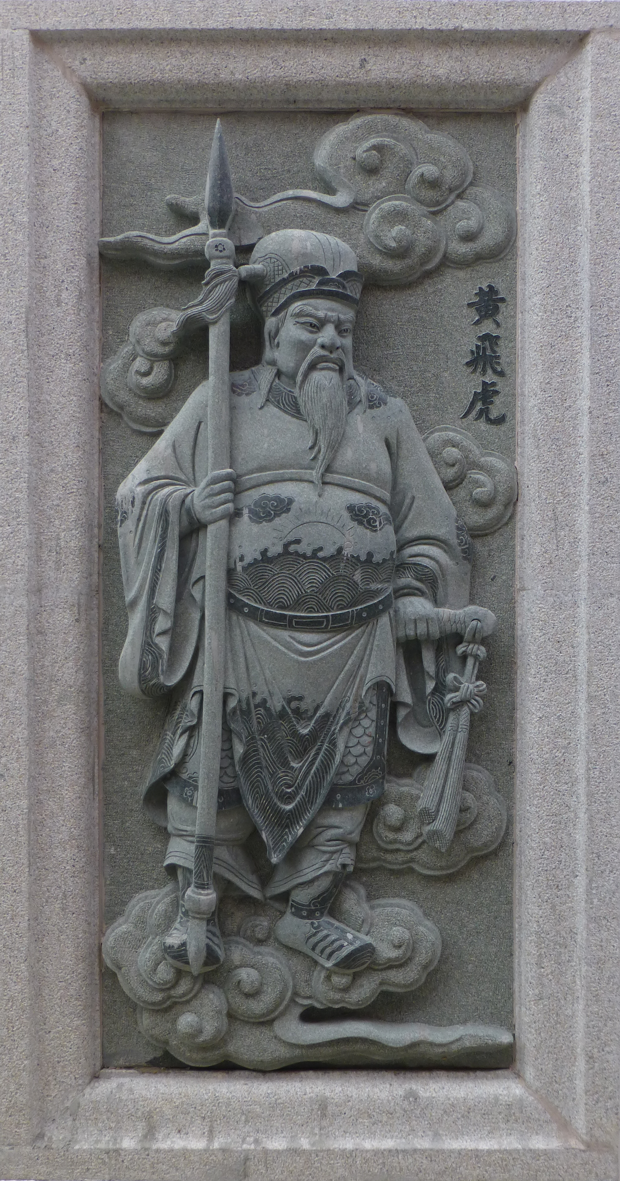 004 Huang Feihu, Investiture of the Gods at Ping Sien Si, Pasir Panjang, Perak, Malaysia Photograph from the Ping Sien Si Temple in Perak, Malaysia taken by Anandajoti.